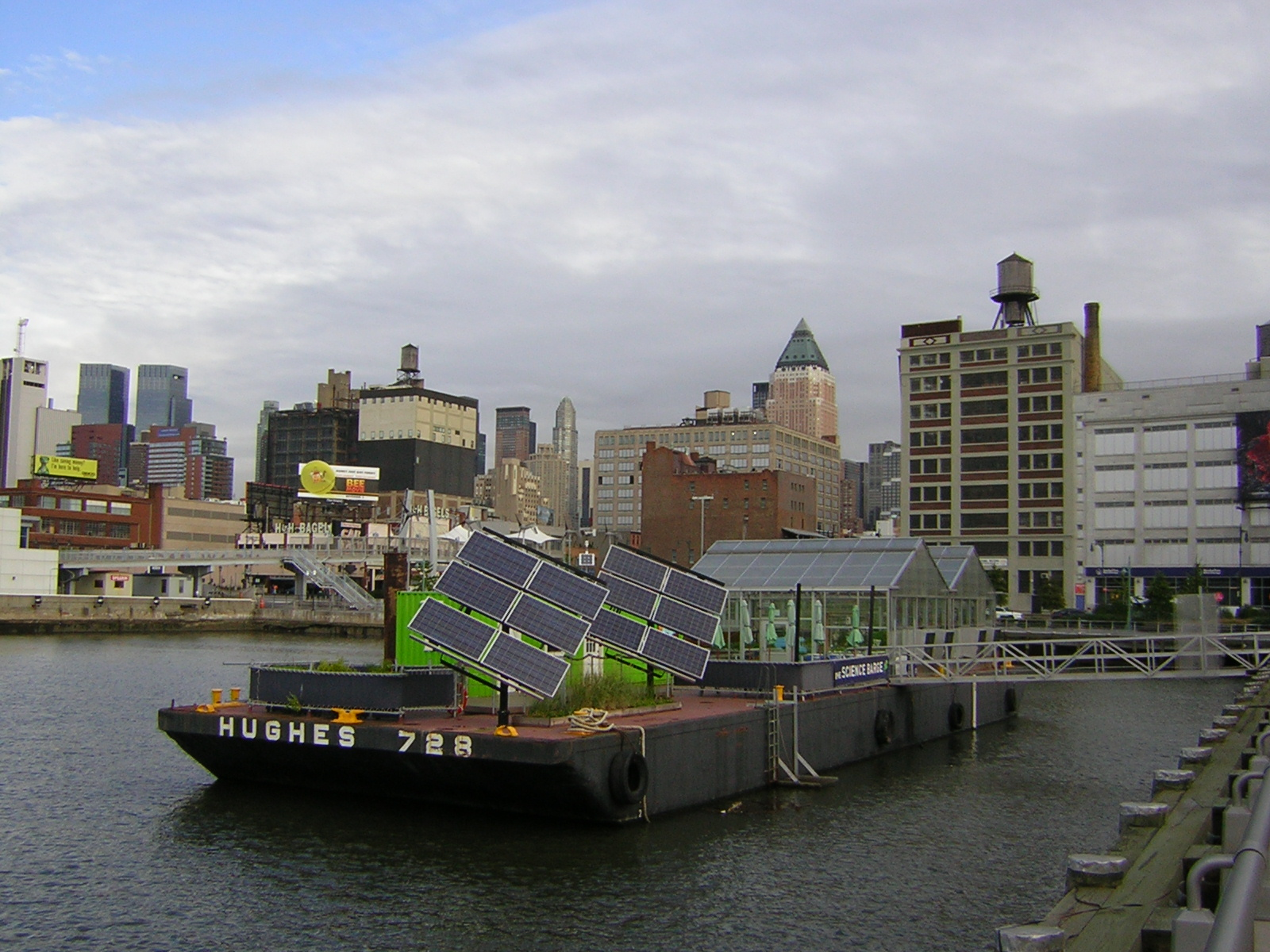 The Science Barge spent 2007 docked to the north side of North River Pier 84 in Manhattan. Background includes a bit of the Intrepid Museum (without ships), white AT&T Long Lines building at 811 Tenth Avenue, 46th Street pedestrian bridge over West Side Highway, and pink One Worldwide Plaza.